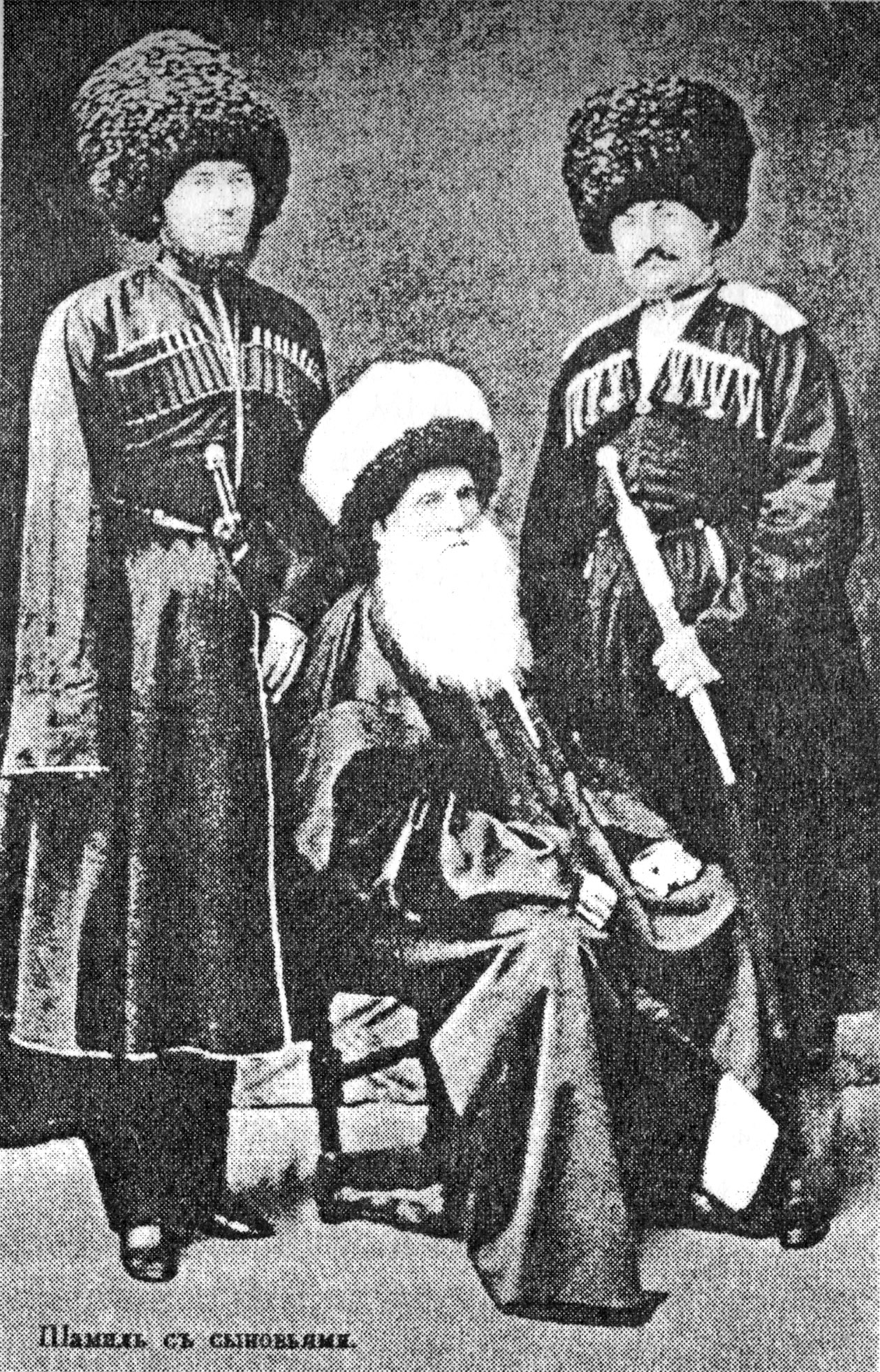 Imam Shamil with his sons. Photo, XIX century